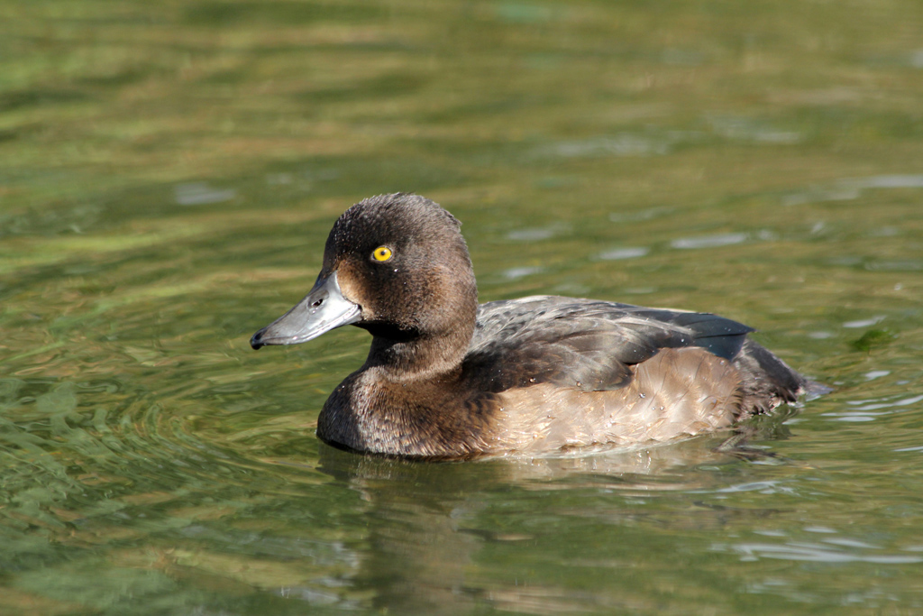 Female of Tufted Duck (Aythya fuligula)